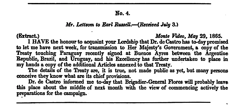 to Russell, May 29 1865.Facsimile of 19th century document --Lettsom